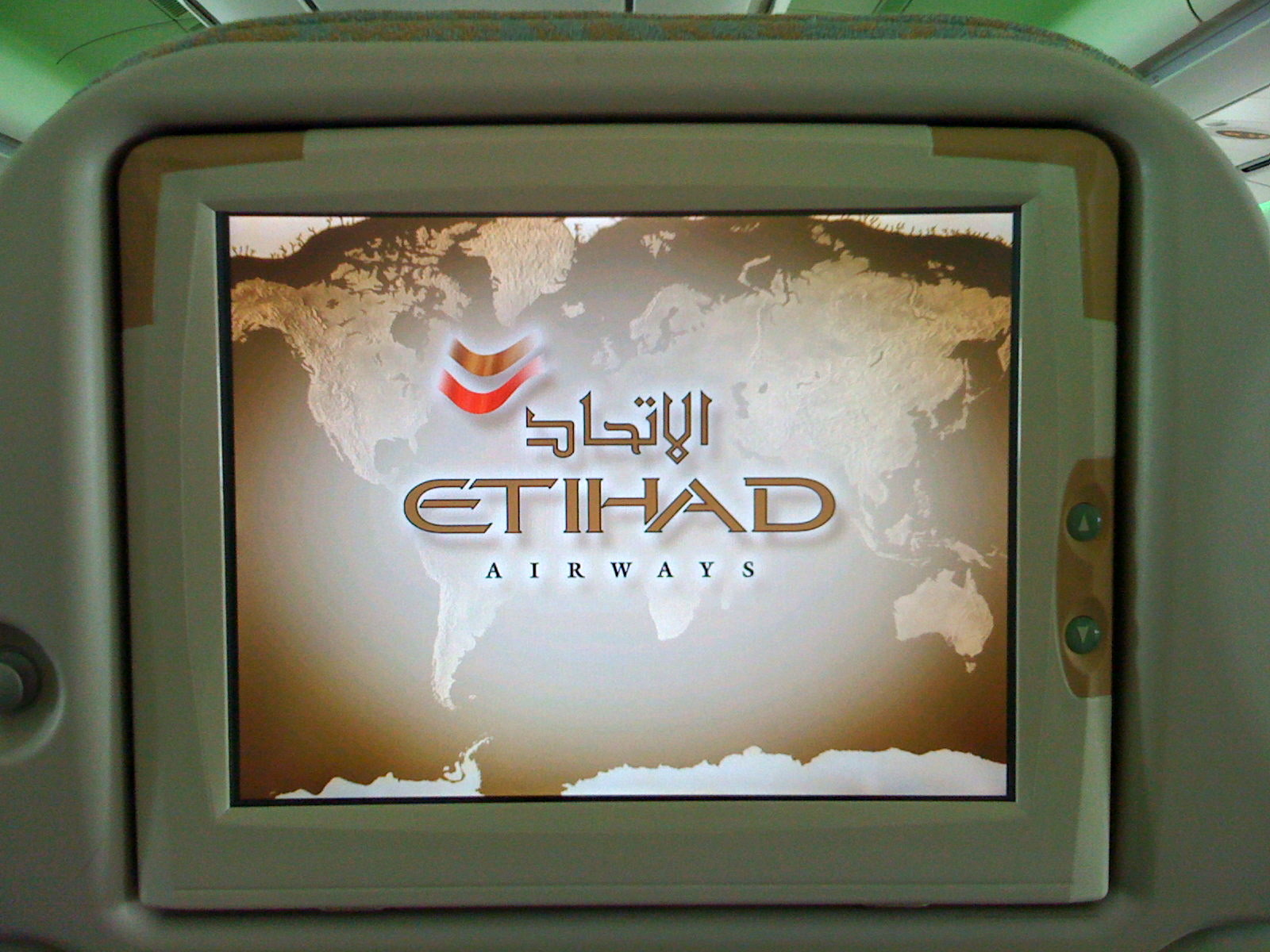 A PTV onboard a flight to Abu Dhabi.